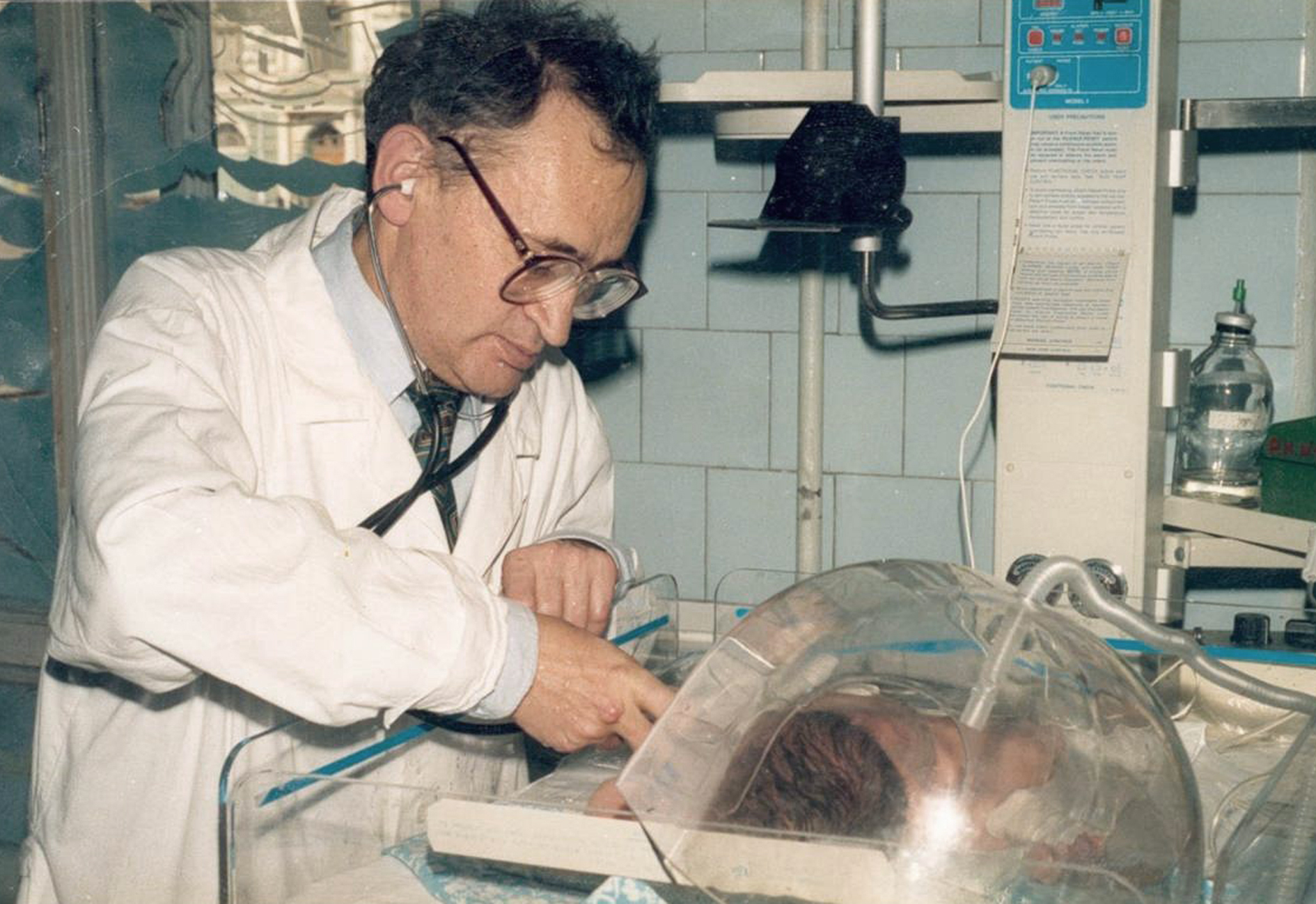 Tsybulkin Eduard. Professor of Medicine